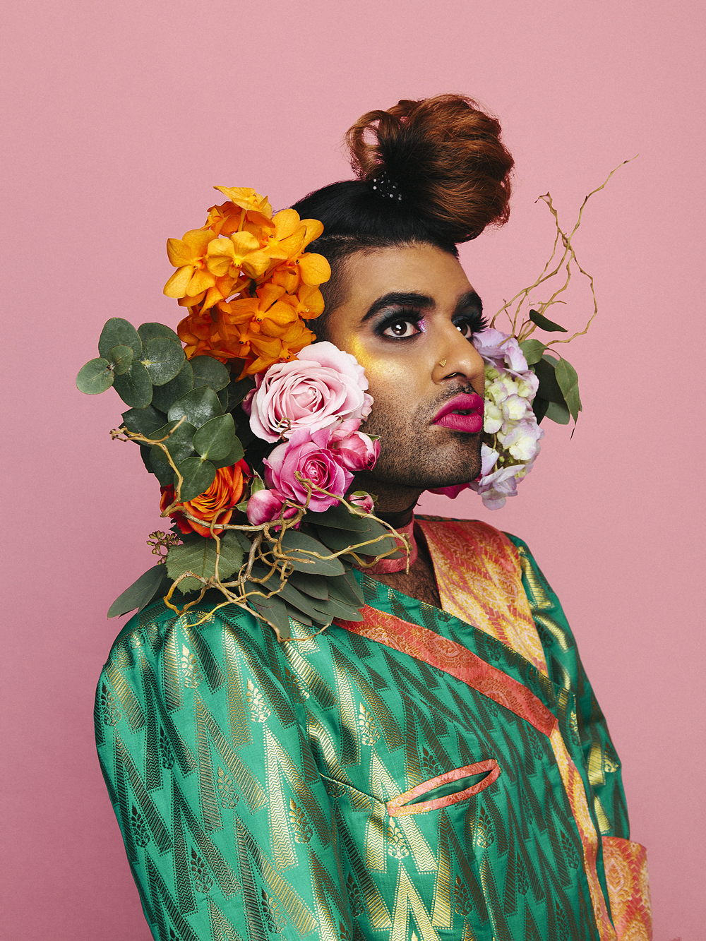 Transfemme Gender-nonconforming Performance artist Alok Vaid-Menon photographed by Eivind Hansen